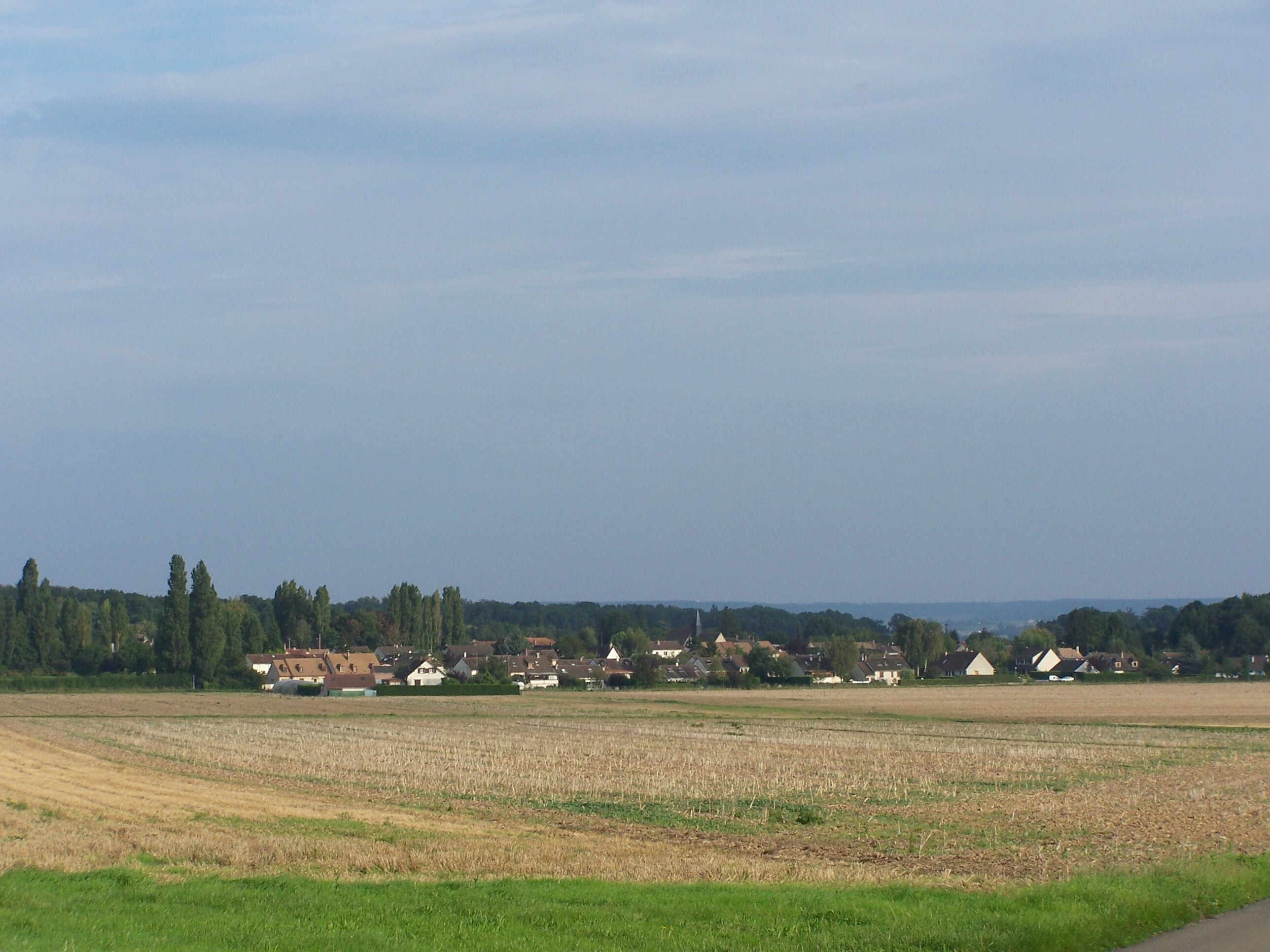 General sight of Villiers-le-Mahieu (Yvelines, France)